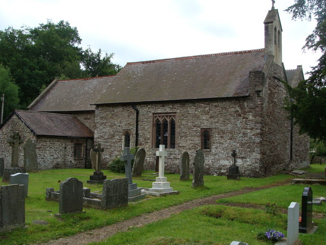 St. Cenau's church and churchyard Llangenny - north elevation